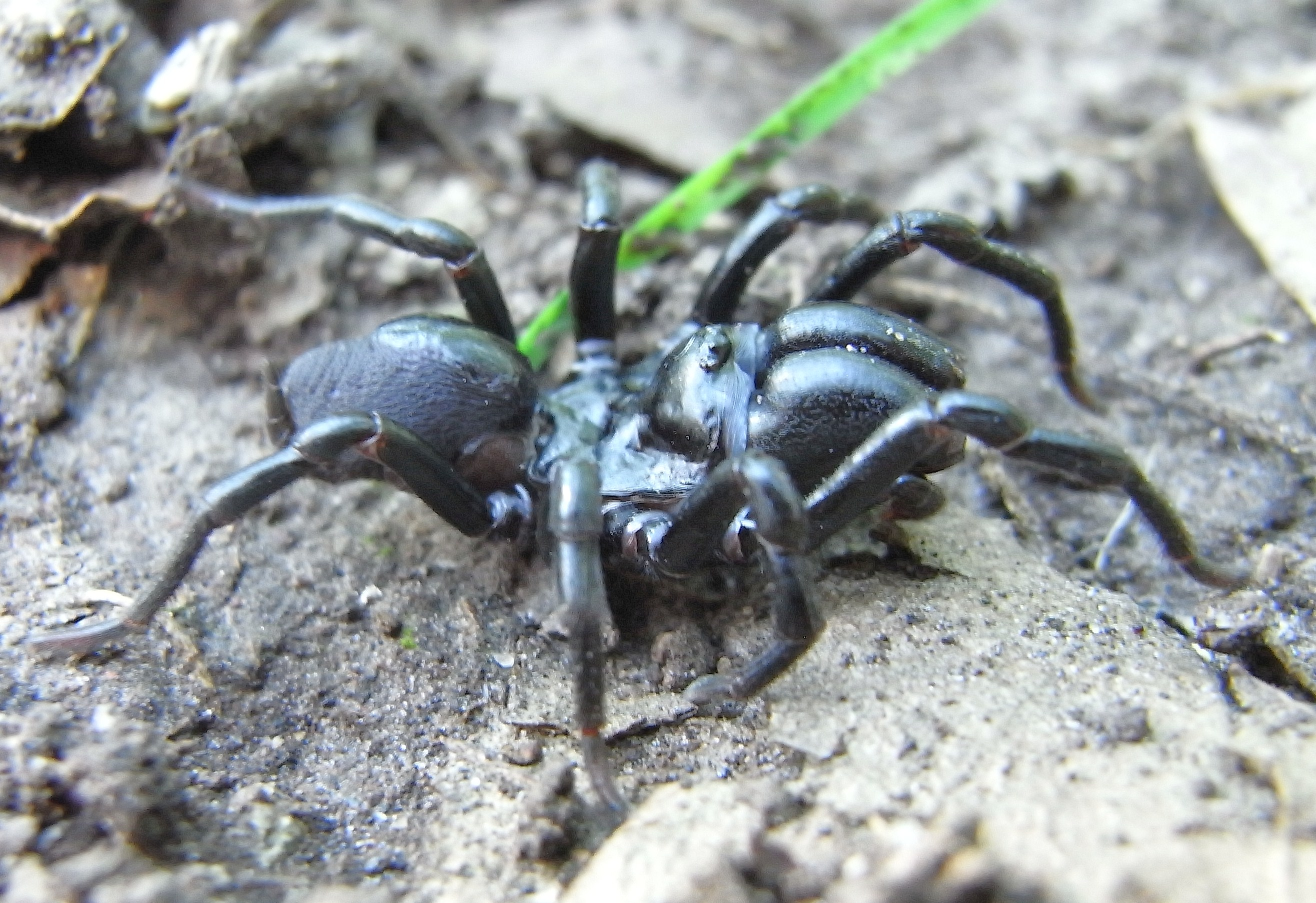 Atypus piceus from Hungary, Börzsöny-mountains at 2010-07-04Ricoh R8